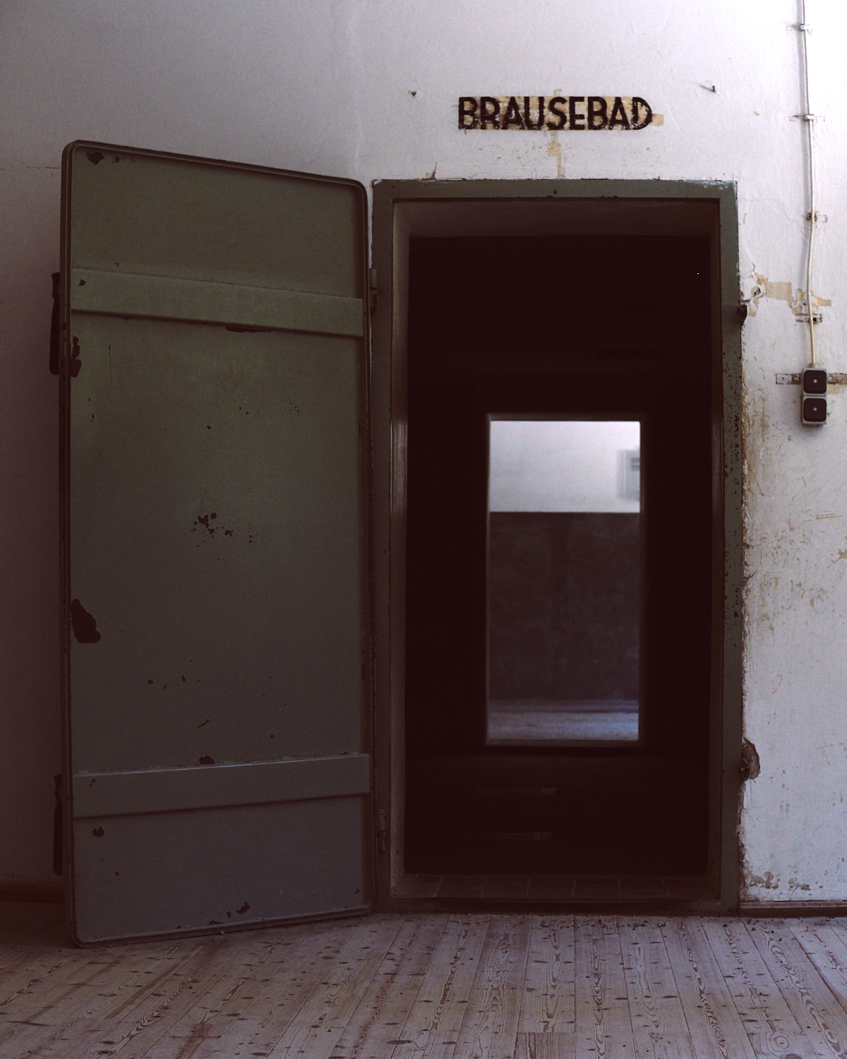 The gaz chamber at Dachau Concentration Camp